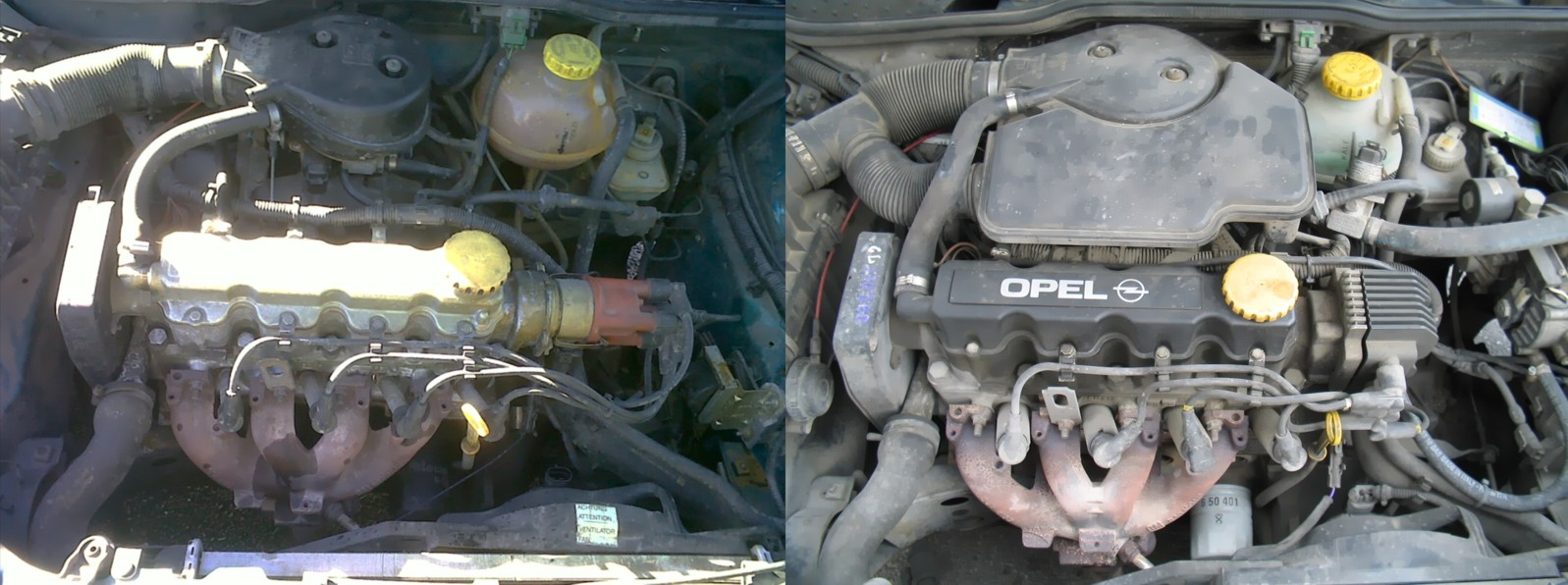 Motor Opel Corsa B 1.2 petrol version to the left lung without the recovery (C12NZ), the right version with the lung recovery (X12SZ)